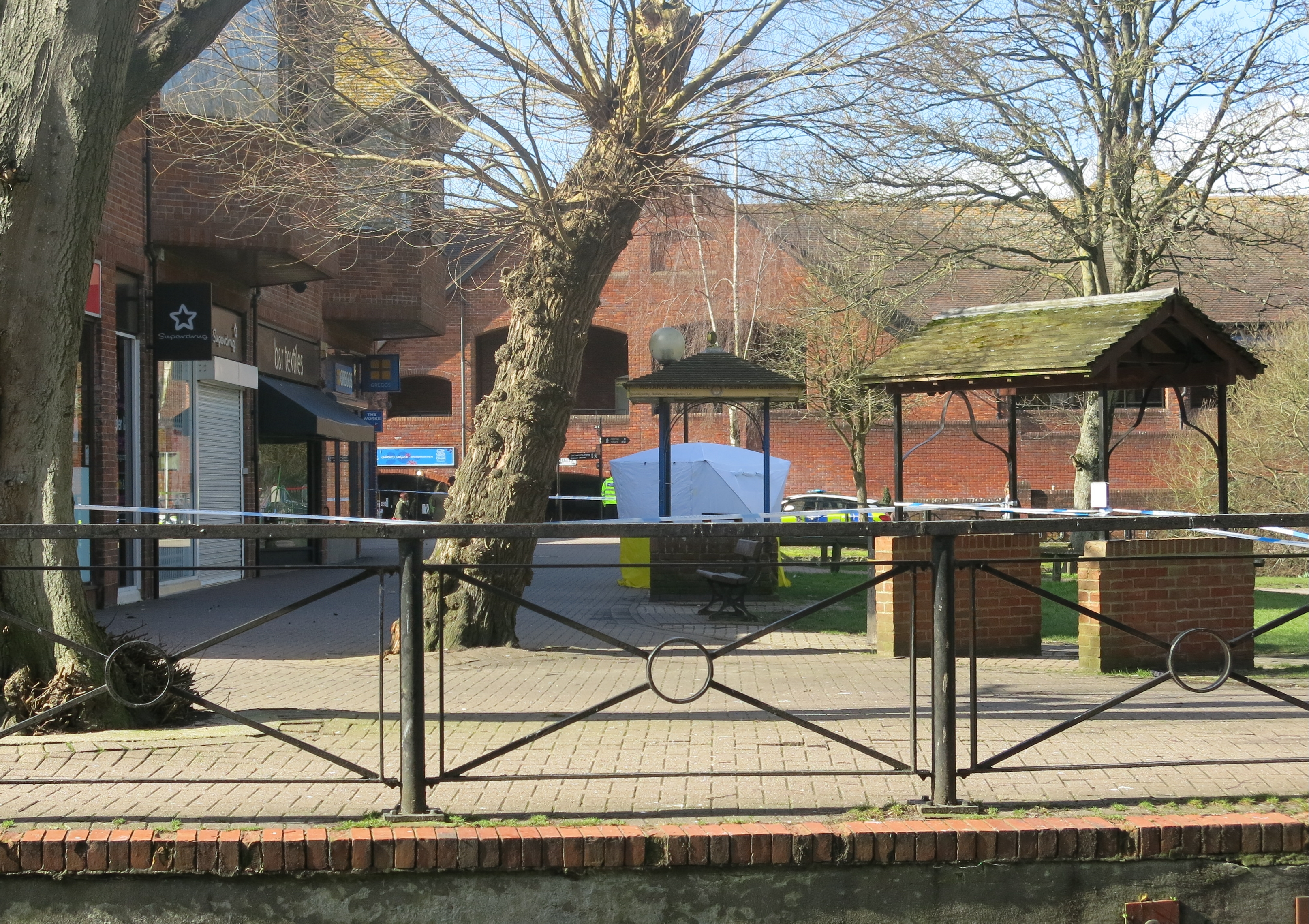 The Maltings, Salisbury. The white cover is over the bench where the Skripals were found on Sunday following a poison attack.